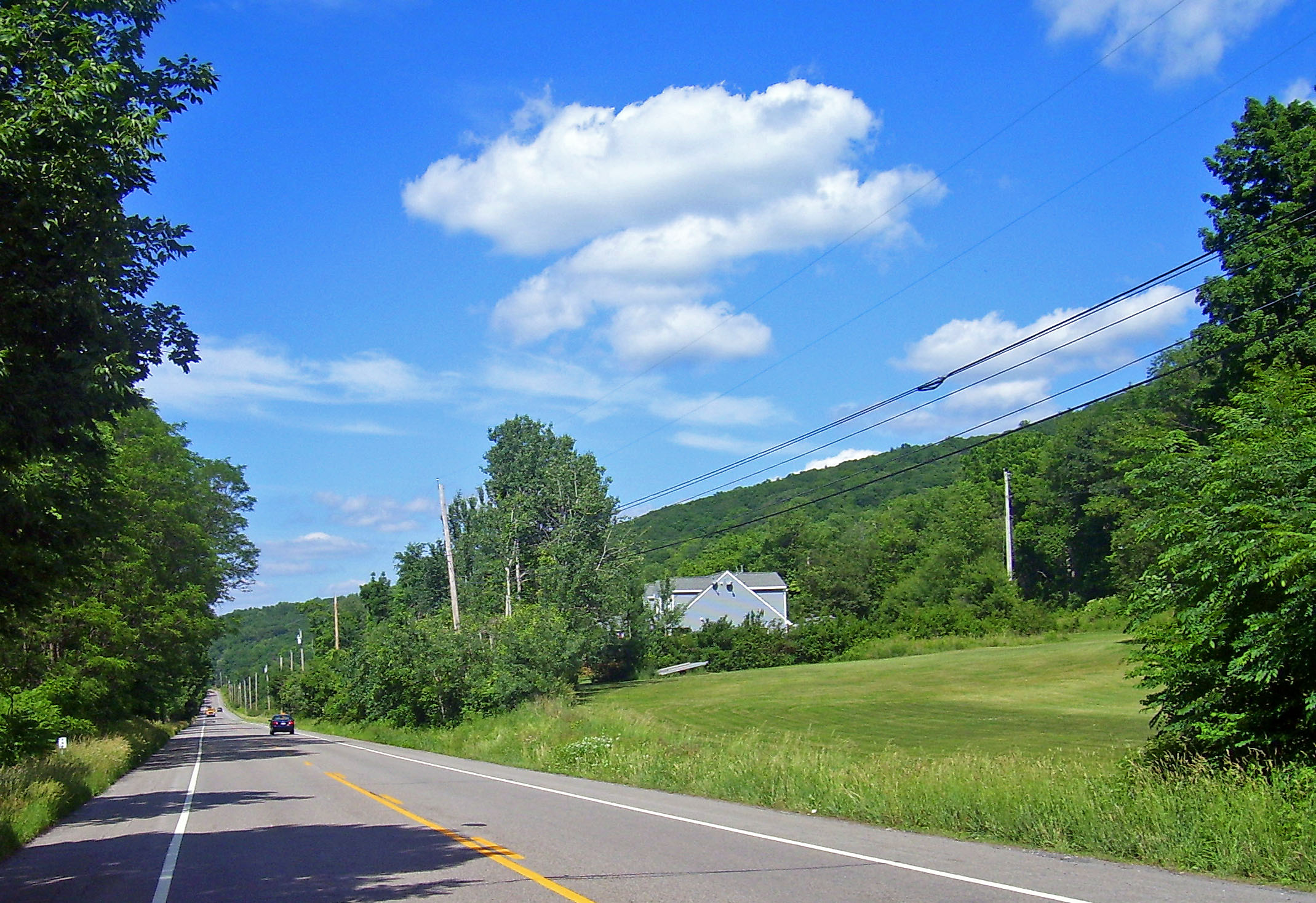 Looking north on NY 32 in the Town of Cornwall